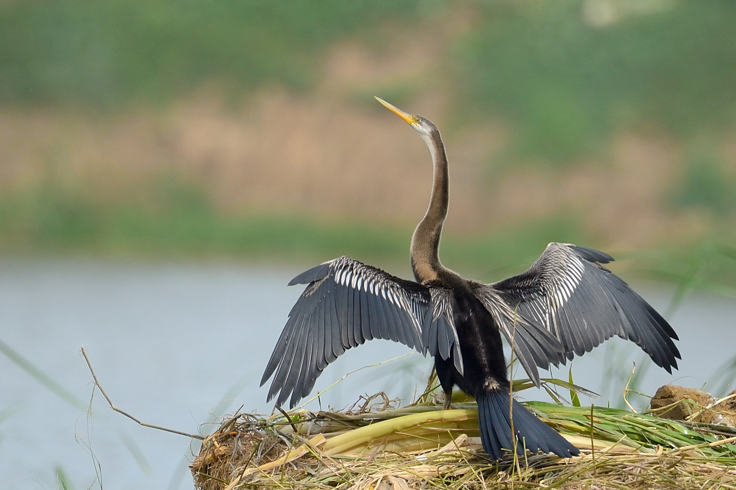 Oriental Darter sunning. Photographed in Bangalore, India.